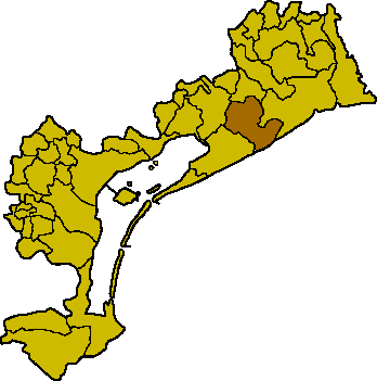 Location of Eraclea in the province of Venice.